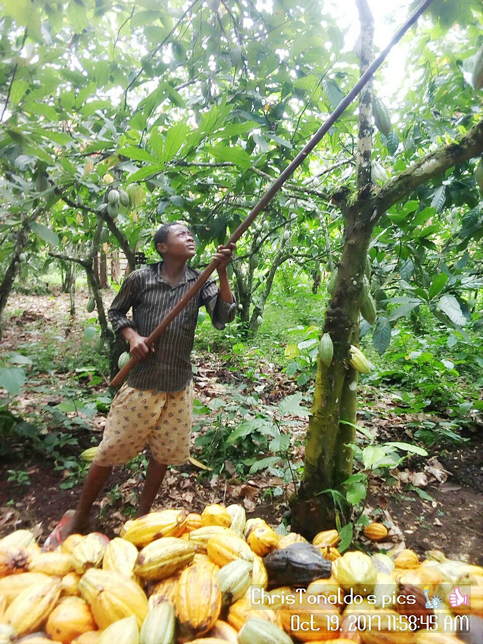 This is an image with the theme "Africa on the Move or Transport" from: Cameroon